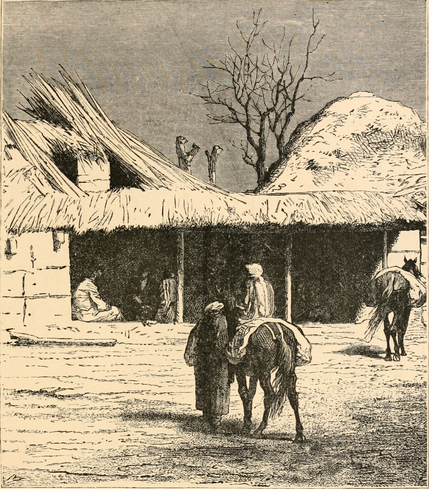 Title: The boy travellers in the Russian empire: adventures of two youths in a journey in European and Asiatic Russia, with accounts of a tour across Siberia.. Year: 1886 (1880s) Authors: Knox, Thomas Wallace, 1835-1896 Subjects: Soviet Union -- Description and travel Siberia (Russia) Publisher: New York : Harper & brothers Text Appearing Before Image: ^ were so much alike that the descriptions youhave already read will answer for them all. At Kizil Arvat we found anoasis containing altogether half a dozen square miles of tillable land, onwhich were several Turcoman villages, and a Russian town of perhaps athousand inhabitants. We call the town Russian from the flag that M^aves over it, ratherthan from the nationality of those who live in it. They are Russians, POPULATION OF KIZIL ARVAT. 475 Text Appearing After Image: TURCOMAN FARM-YARD. Turcomans, Kirghese, Persians, Armenians, and Jews, and I dont knowliow many other races and kinds of people. There is a good deal of com-merce, mostly in the hands of Armenians and Russians, but much less thanwhen the railway terminated here. The business of Merv and the Penjdehdistrict is at the end of the railway ; in this respect the commerce of Cen-tral Asia is much like that of our far-western country, and changes its basewith each change of the means of transport. There is a fort at Kizil Arvat, and also a bazaar, and we are told thatAskabad is similarly provided. Whenever the Russians establish them- 476 TPIE BOY TRAVELLERS IN THE RUSSIAN EMPIRE.